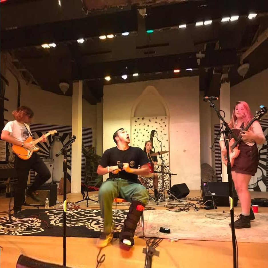 Spowder at the 2017 North Jersey Indie Rock Festival.